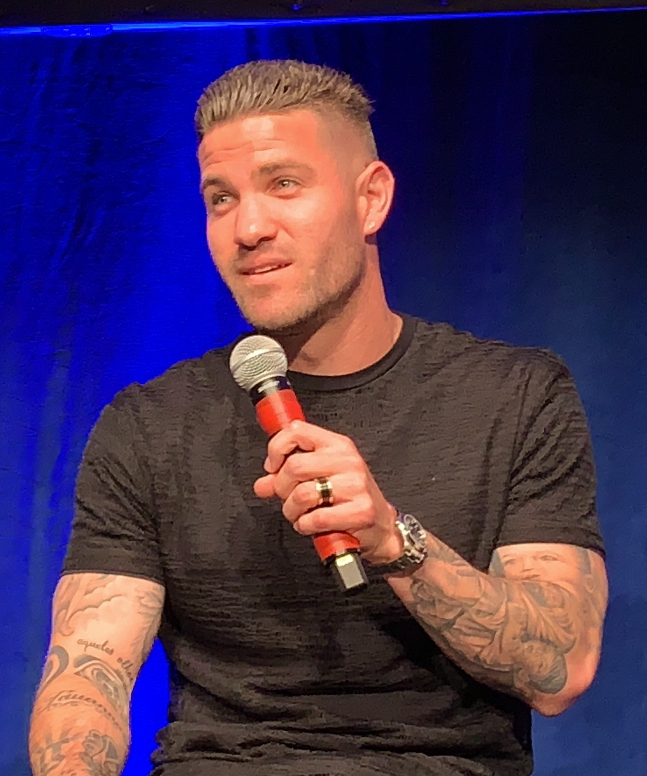 Taken at the FC Cincinnati 2019 inaugural kit reveal event on February 11, 2019 in the main ballroom of Cincinnati Music Hall.